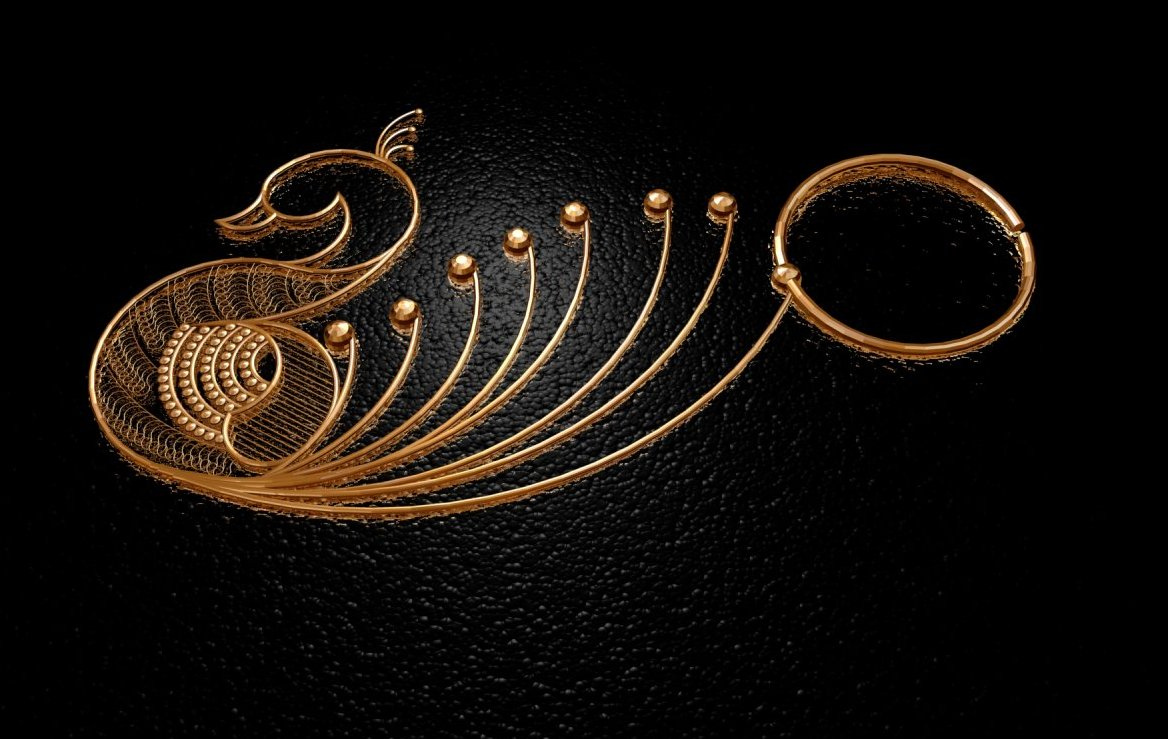 Golden Earring rendered using 3D software.